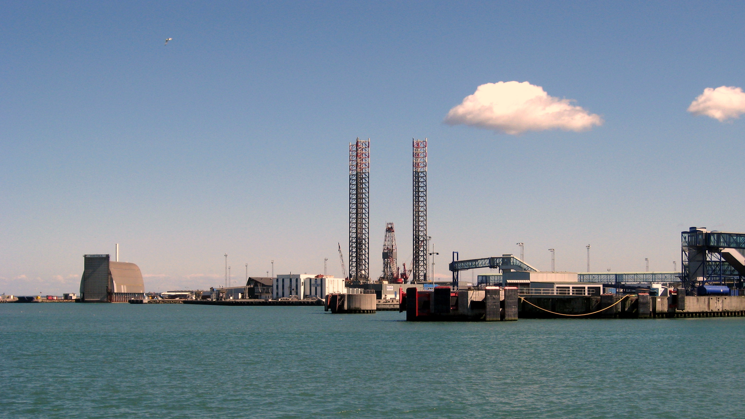 Drilling rig MAERSK GUARDIAN during renovation in Hirtshals, Denmark in May 2011